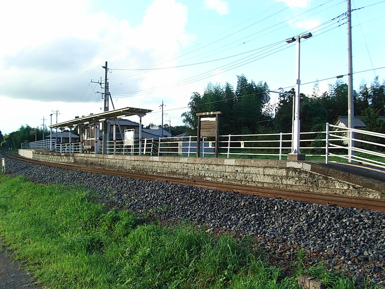 Kobana Station on JR Karasuyama Line. (272,Kobana,Nasukarasuyama-shi,Tochigi-ken,JAPAN)